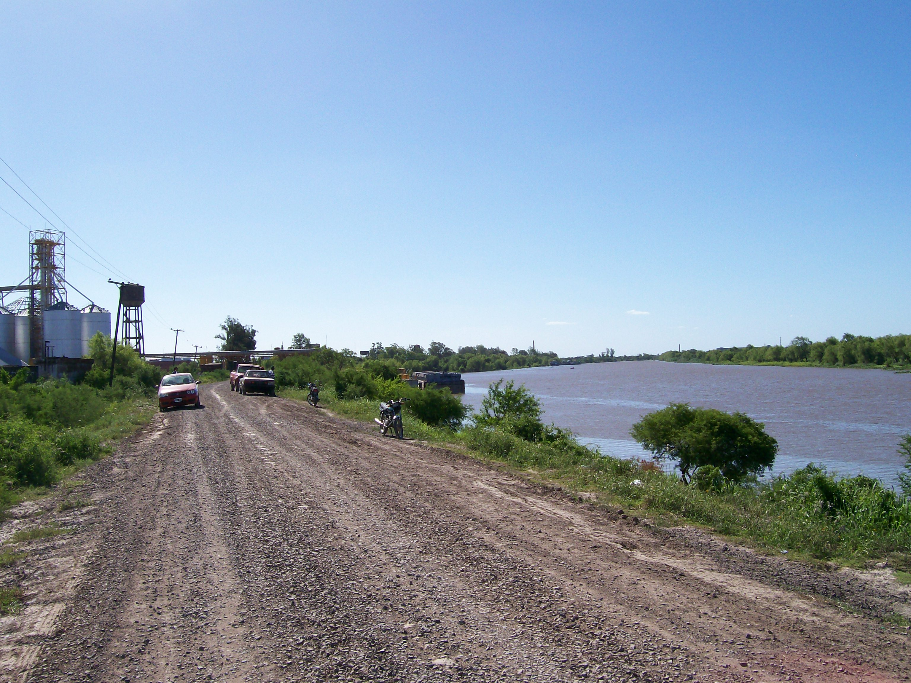 Last factory pier over Barranqueras river, in Puerto Vilelas (Chaco Province, Argentina).